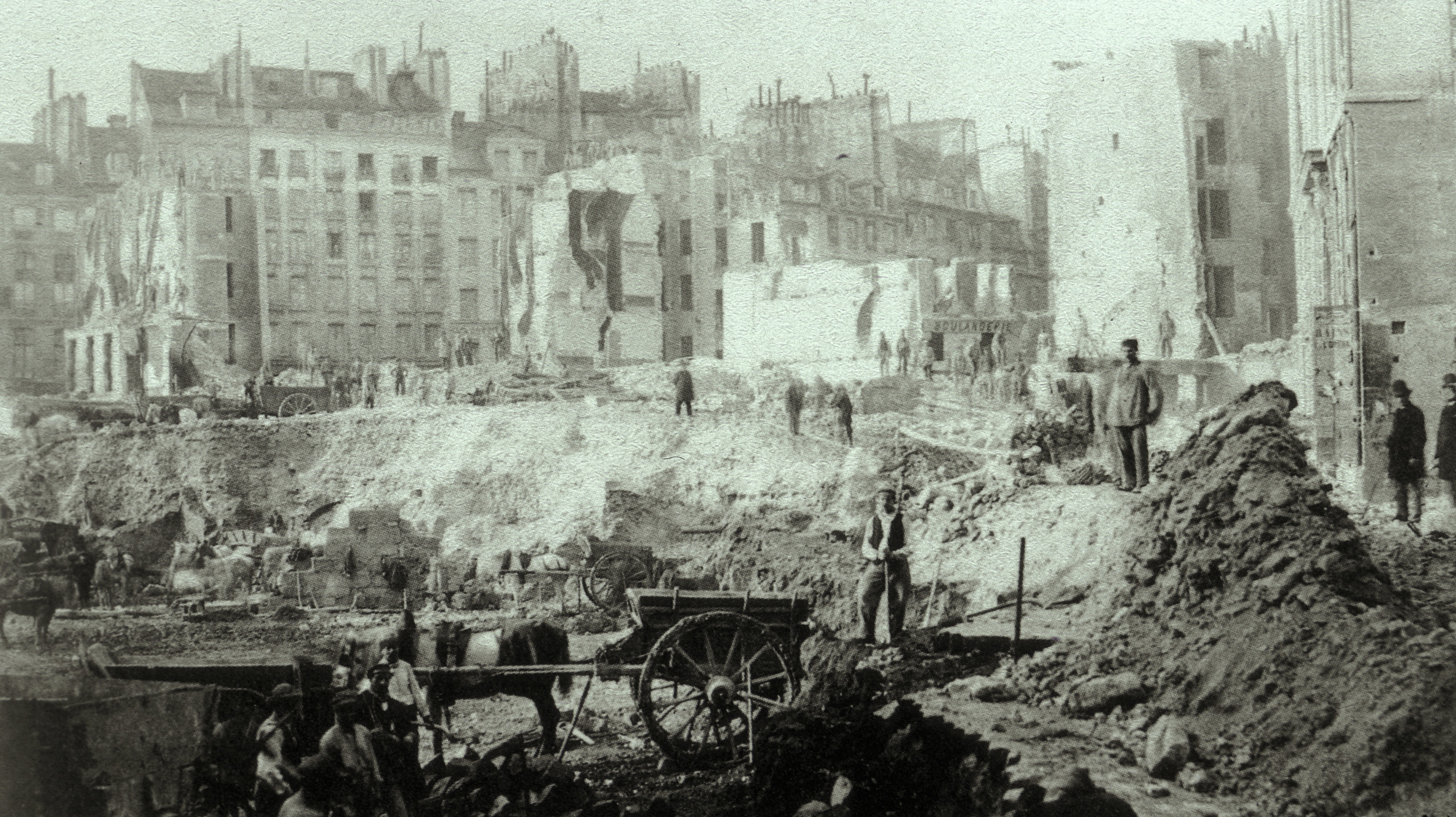 Construction for the Avenue de l'Opéra officially began in 1854, though it was not until 1873 that it received its name (it was originally called "Avenue Napoléon"). The avenue was initially opened in 1864 and situated between Rue Louis-le-Grand and the Boulevard des Capucines. It was extended, however, in 1867 and 1876, and was officially permanently inaugurated at this latter date. It is now located between the Place du Théâtre-Français and the Place de l'Opéra. Like most of Haussmann's work, the construction of the Avenue de l'Opéra resulted in massive demolition of certain quarters and residences, including the Butte des Moulins and sections of the Rue d'Argenteuil (shown here). By 1876, the total construction costs reached 9.8 million dollars, and 168 homes were destroyed.